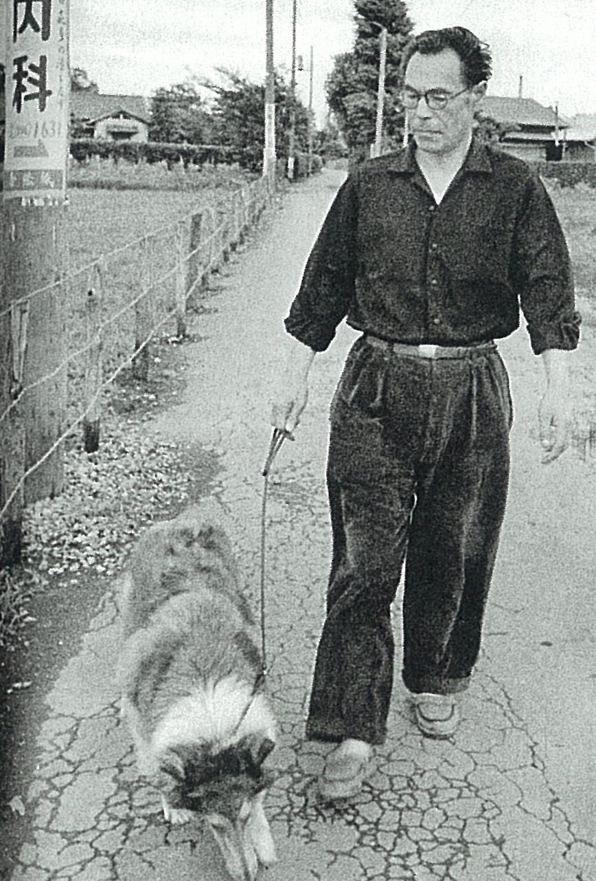 Miematsu Tanabe is a Japanese painter.